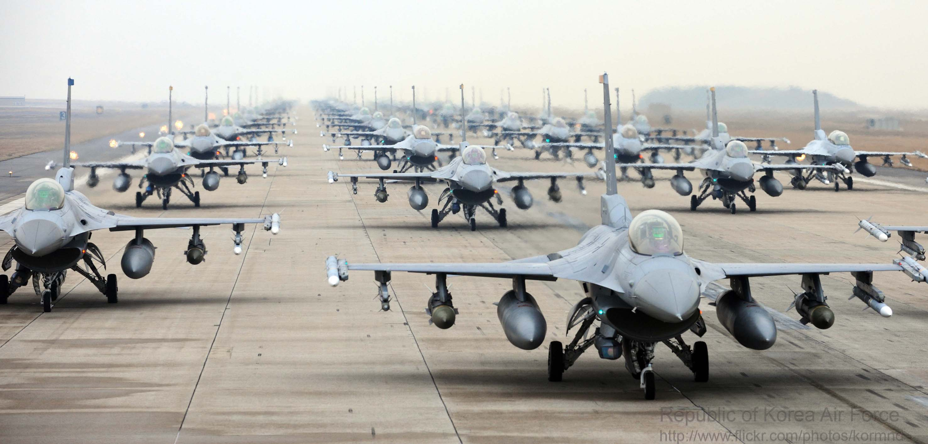 2012. 3. 공군 Pratice Generation, Rep. of Korea Air Force